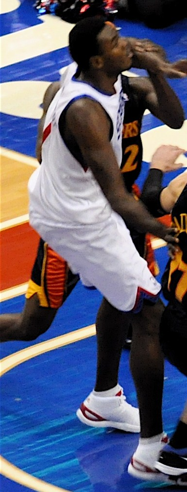 Wachovia Center as seen from my nosebleed seat one row from the very top. The Sixers broke a 12-game losing streak, beating the Warriors 117 to 101 — the first win since Allen Iverson rejoined the Sixers.